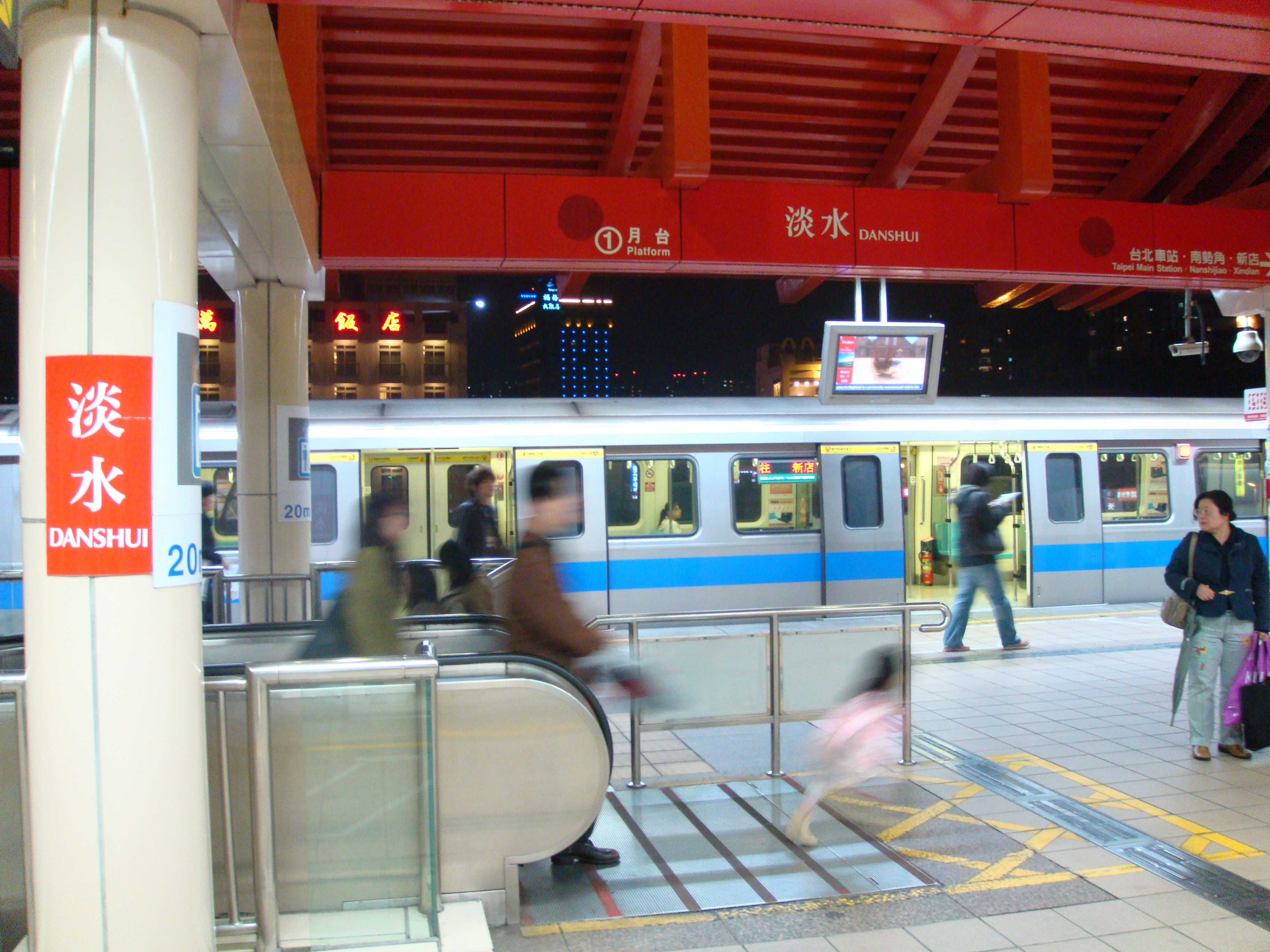 Platform 1, Danshui Station, Taipei Metro.中文（台灣）: 臺北捷運淡水站第一月台。